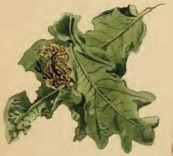 Stainton’s Natural History of the Tineina (1855–1873): Pseudotelphusa paripunctella oak leaves spun together and eaten by larva